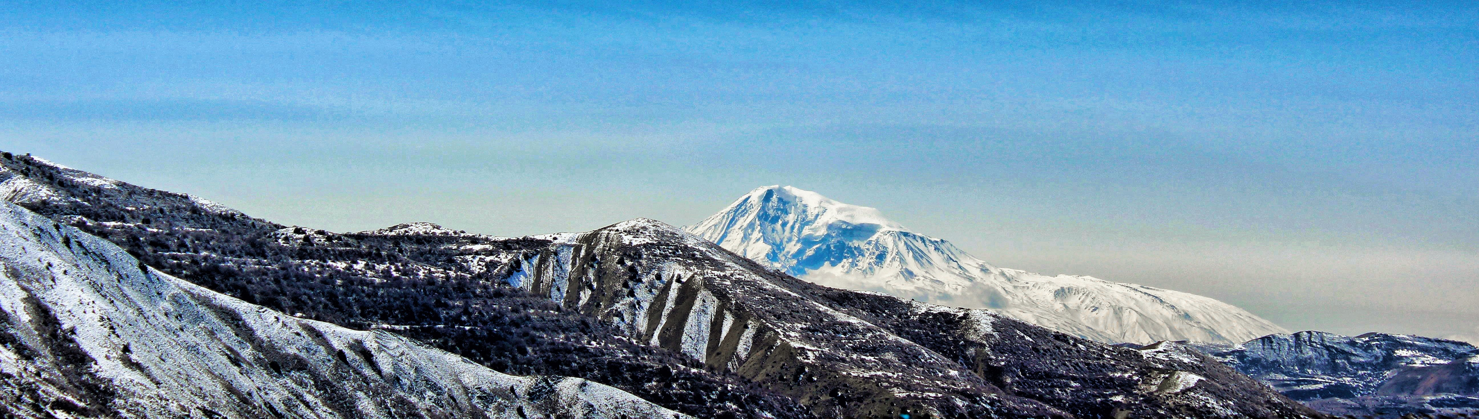 Mount Ararat from Kotayk Province of Armenia